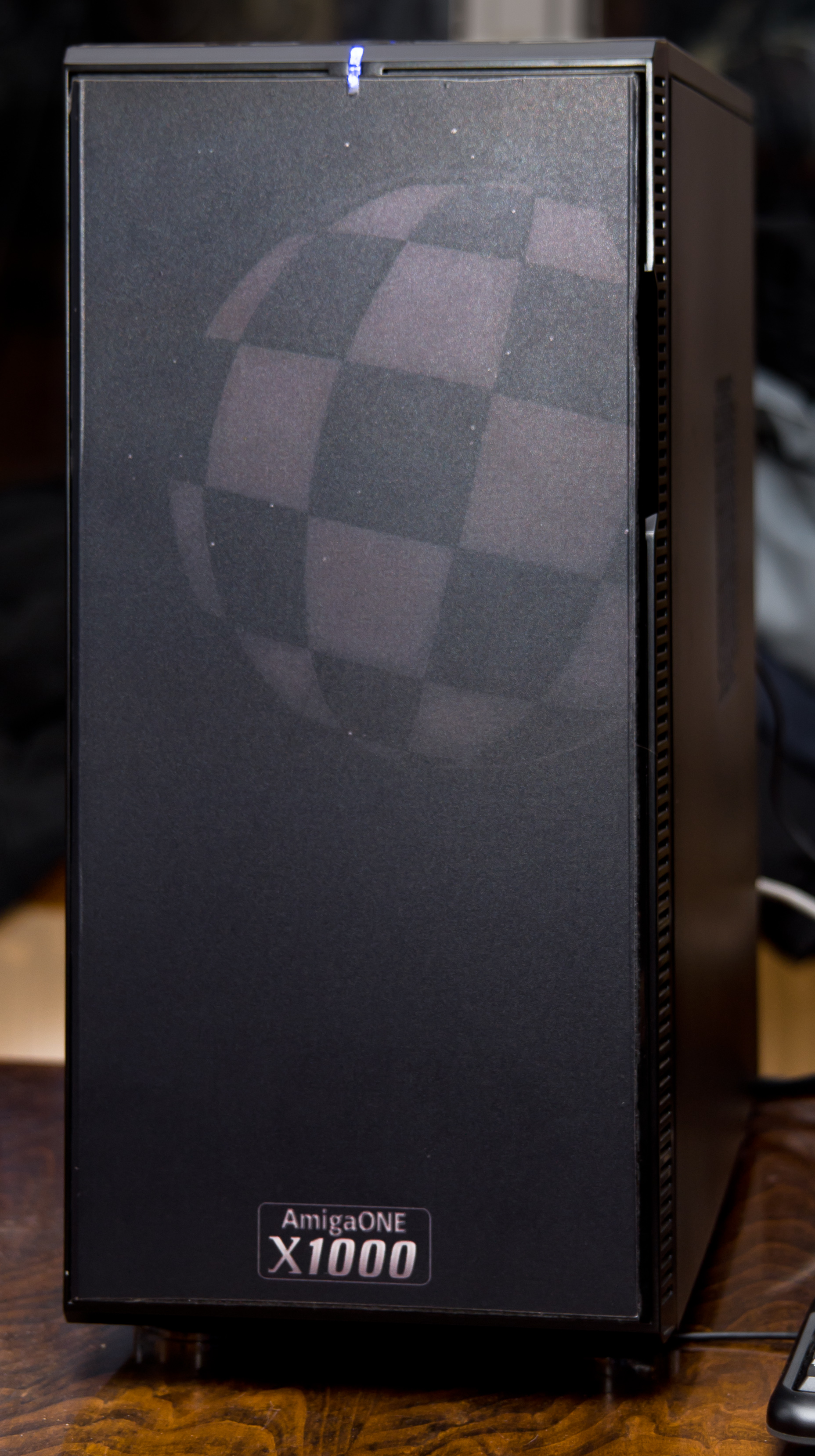 AmigaOne X1000.